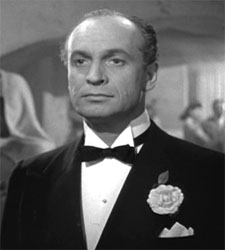 Cropped screenshot of Gregory Gaye from the film Casablanca (1942)